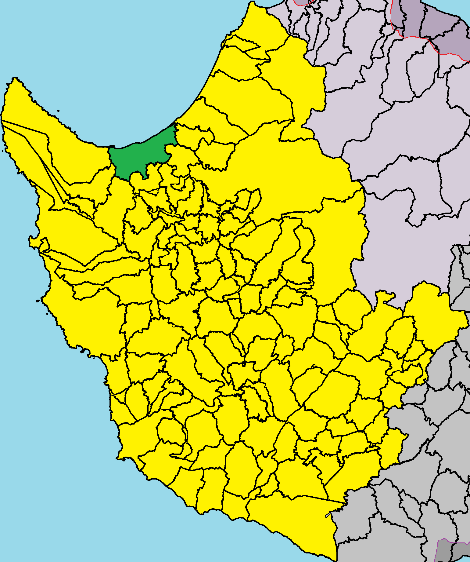 Polis, Cyprus in Paphos District.